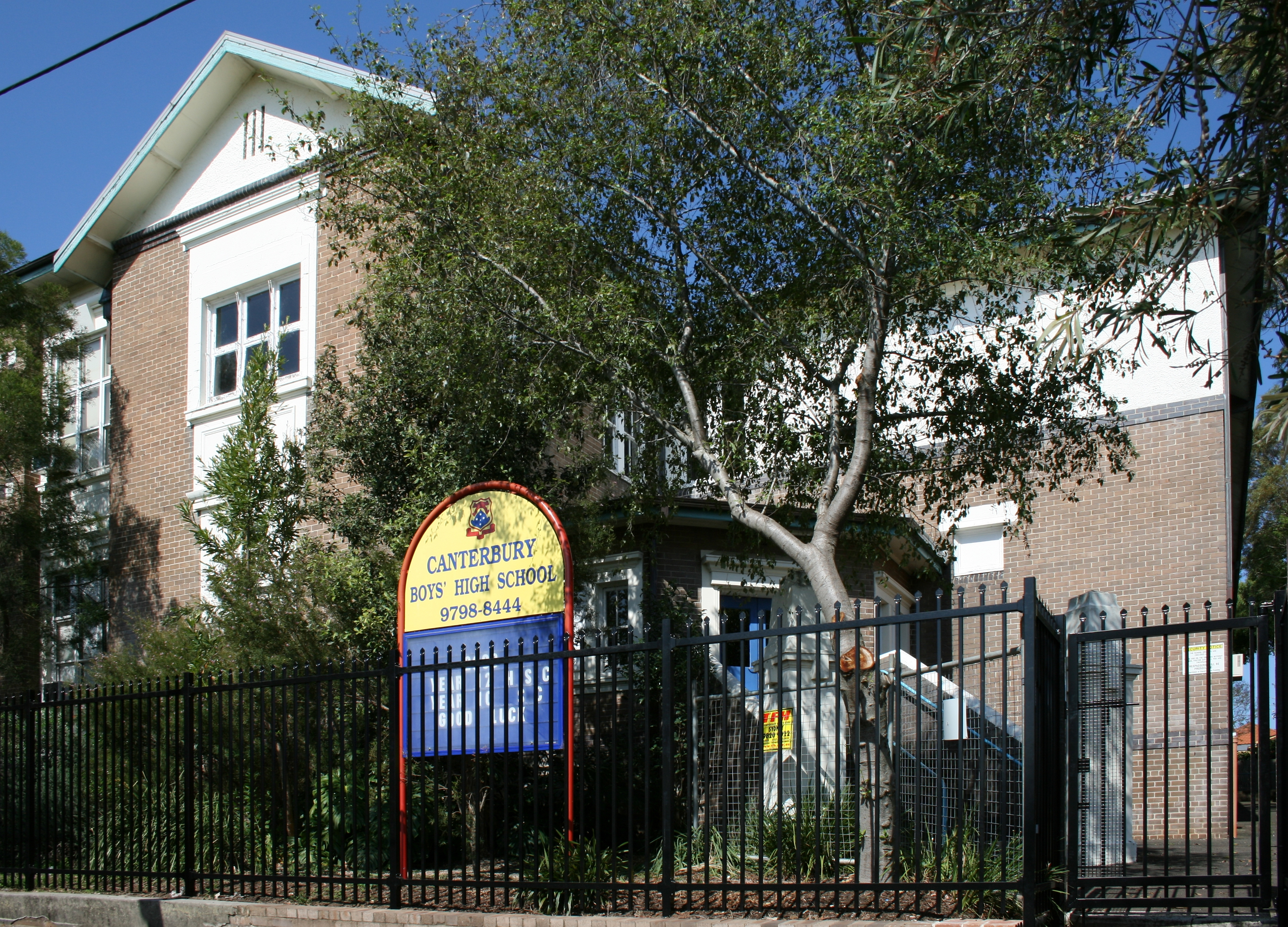 Main gateway and entrance to Canterbury Boys' High School, in Canterbury, New South Wales, Australia.